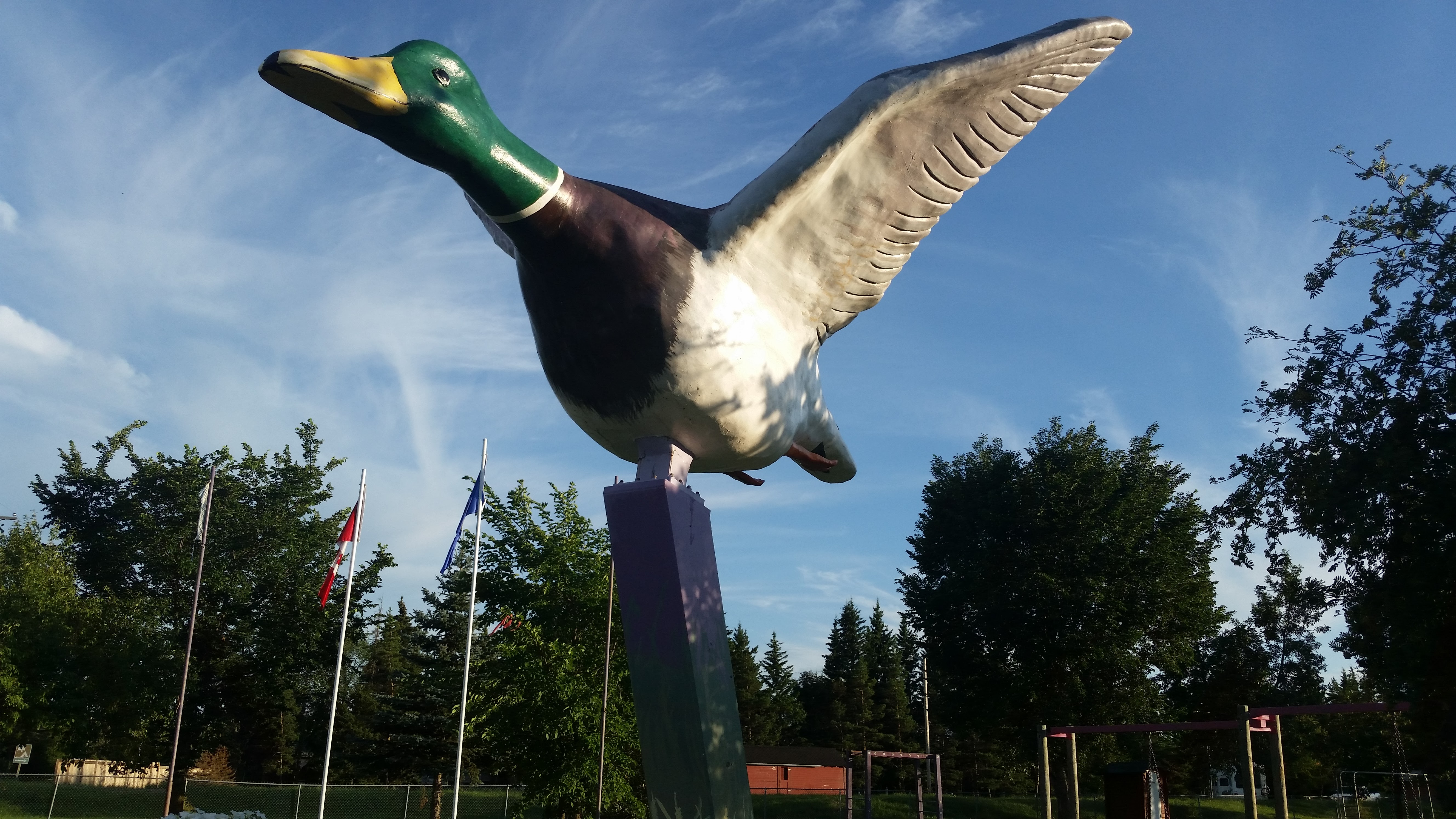 Mallard duck sculpture in Andrew, Alberta, Canada. : 23 Foot (7.2 Metre) Wingspan. Weighs 1 tonne.